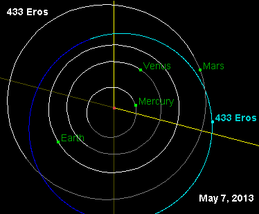 Orbital diagram of Eros with location as of May 7 2013